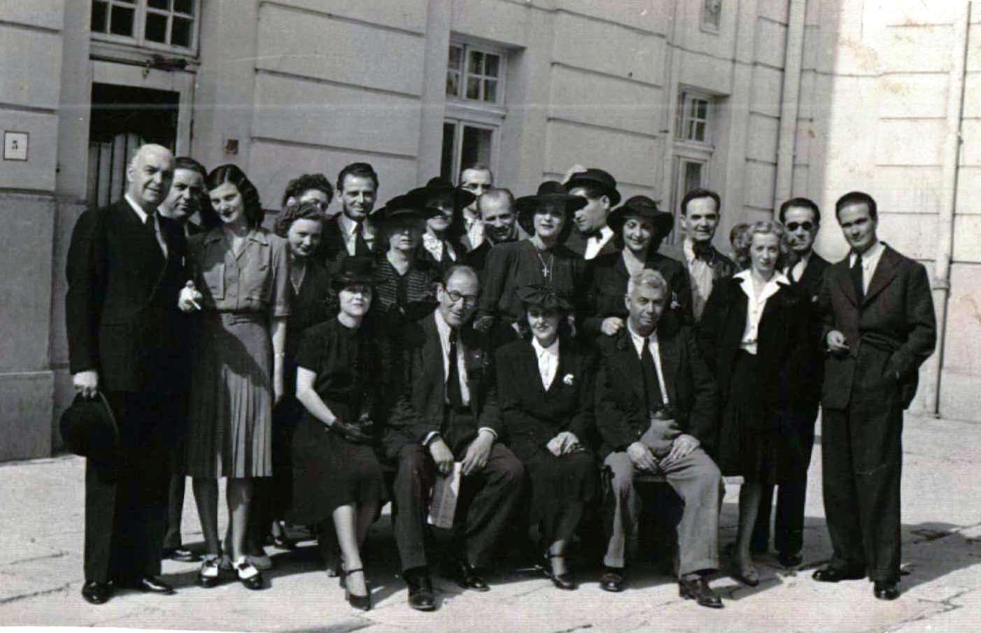 Actors and actresses from Skopie National theatre.